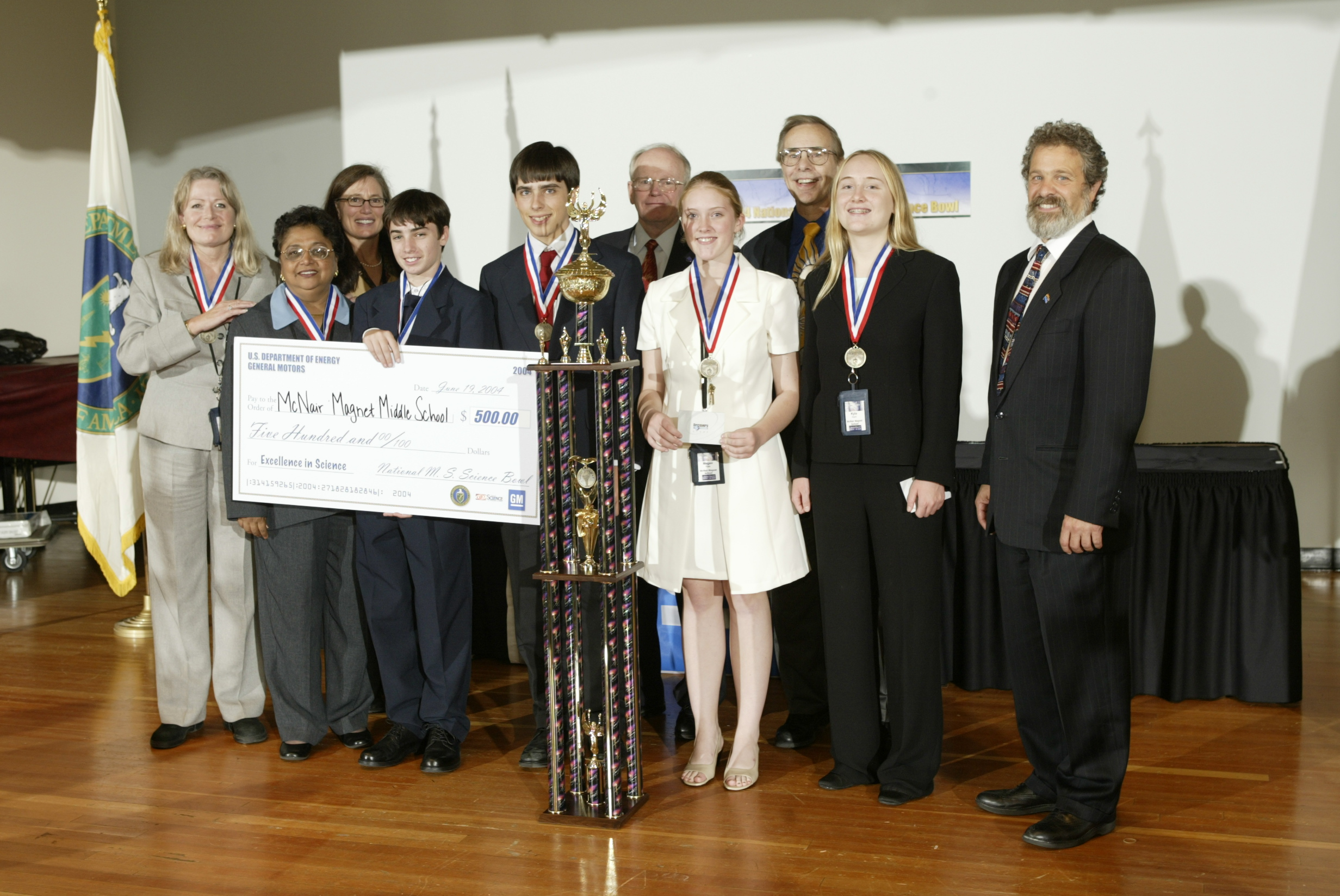 2004 National Middle School Science Bowl. First Place Winners of the Academic Competition from Ronald McNair Magnet School. It is a public Magnet school located in Cocoa, Florida. This annual event is sponsored by the U.S. Department of Energy and General Motors. June 2004.